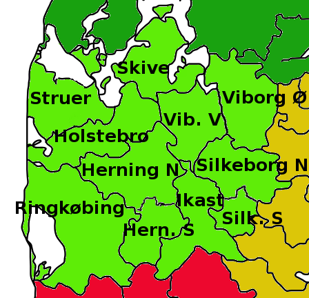 The Vestjyllands Storkreds constituency in Denmark